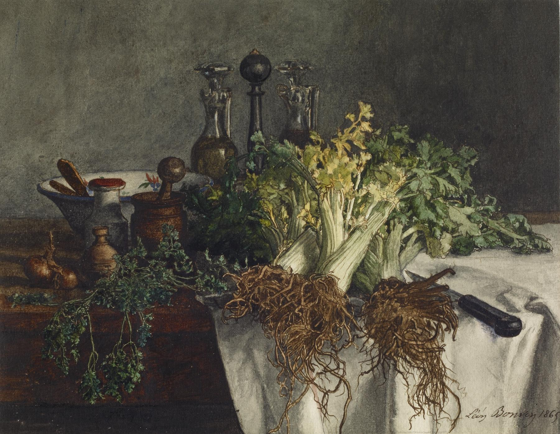 In about 1863, Bonvin began to paint still-lifes portraying informal arrangements of commonplace flowers, vegetables, and kitchen implements. In this instance, on the tabletop partly covered by a white cloth, there are three heads of celery, some parsley, several garlic bulbs, and various utensils including a knife, a cruet set, a pestle and mortar, and a faience bowl. The same combination of kitchen implements, particularly the knife extending over the table's edge, and the cloth with clearly defined folds, figured in the still-lifes of Bonvin's older half brother François at this time and was also dominant in Manet's paintings of the mid-1860s. These works adhered to a tradition that can be traced to the still-lifes of Chardin and ultimately to Dutch 17th-century precedents. Distinctive of Léon Bonvin's approach was the humble nature of the fare. Philippe Burty recalls that Bonvin, compelled to paint at night, frequently drew his still-lifes using a lamp enclosed in a box with a small opening as a light source, a practice that sometimes imparted a slightly acid color to the greens (Burty, "Léon Bonvin," in "Harpers New Monthly Magazine," 75, January 1886: 37-51). In this drawing, the artist's obsession with detail is clearly manifested in his treatment of the intricate mass of the celery roots. He often outlined the forms in ink and then applied colored washes.